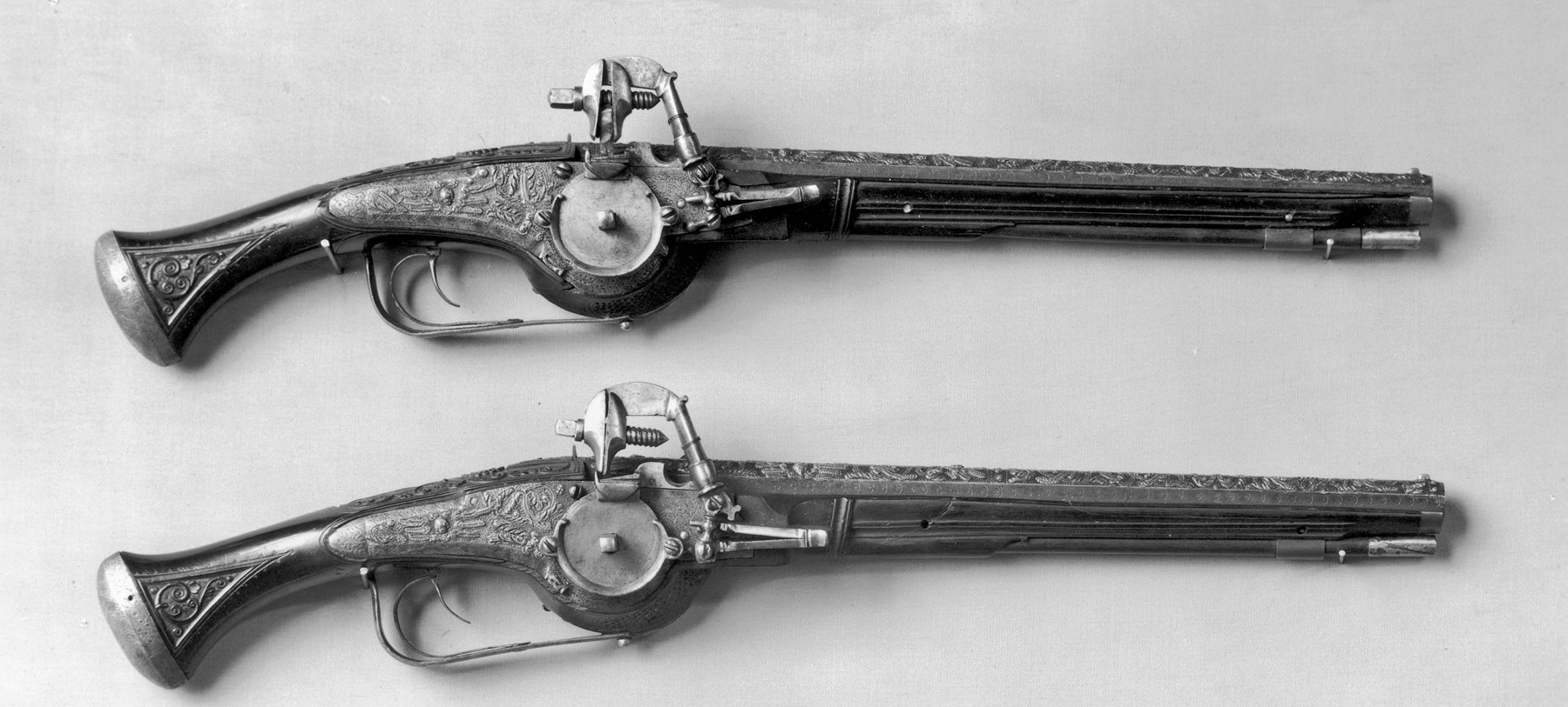 The imperial double-headed eagle on the silver cap of the butt may indicate that this pair of pistols belonged to or was a gift from a member of the Habsburg imperial family, perhaps Emperor Ferdinand III (1608-1657). In any case, it is of the high quality that Ferdinand used as a commander in the imperial army.